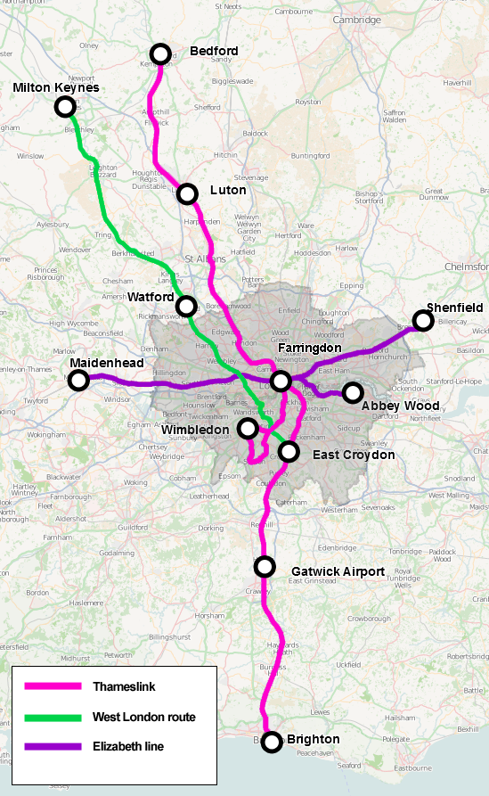 Map of the three National Rail (non-Underground) routes that cross London: Thameslink (Bedford-Brighton), the West London route (Milton Keynes-East Croydon) and the planned Crossrail route. Routes correct 2012 This map may be incomplete, and may contain errors. Don't rely solely on it for navigation.